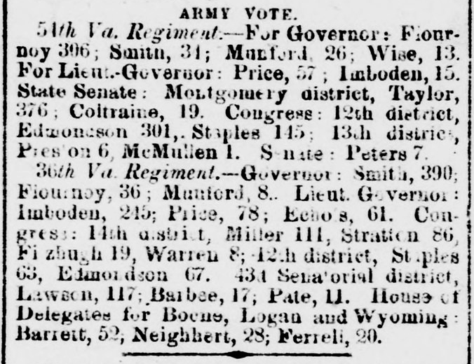 article from the Richmond "Daily Dispatch", June 5, 1863, detailing the votes for governor cast on May 28, 1863, by the 54th and 36th Virginia Infantry